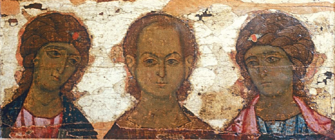 Deesis from Dormition Cathedral in Moscow